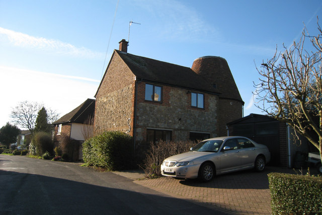 The Oast House, Walnut Tree Farm, Weavering Street, Boxley, Kent